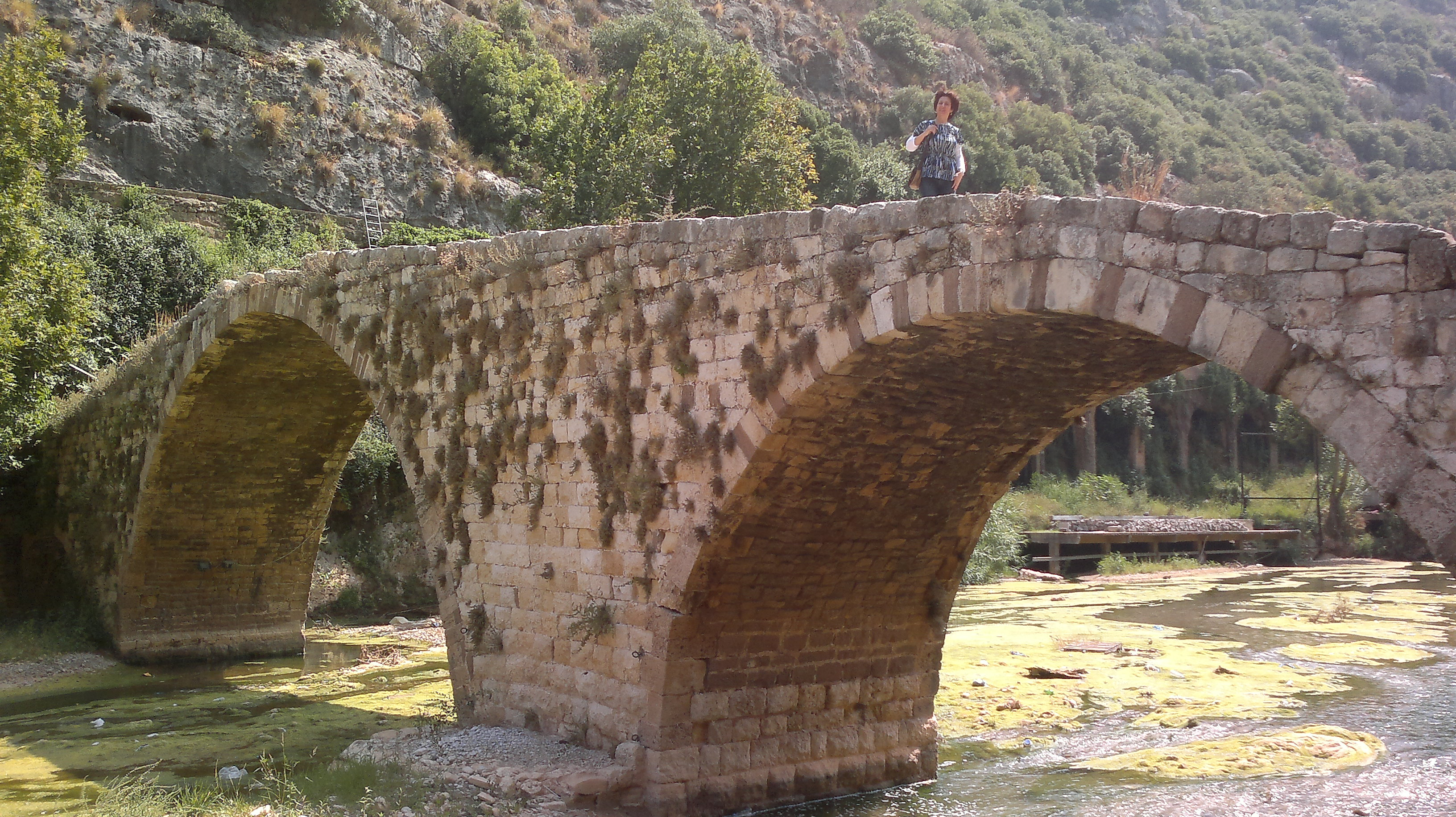 An Ottoman Arch Bridge at Nahr al-Kalb, Lebaon